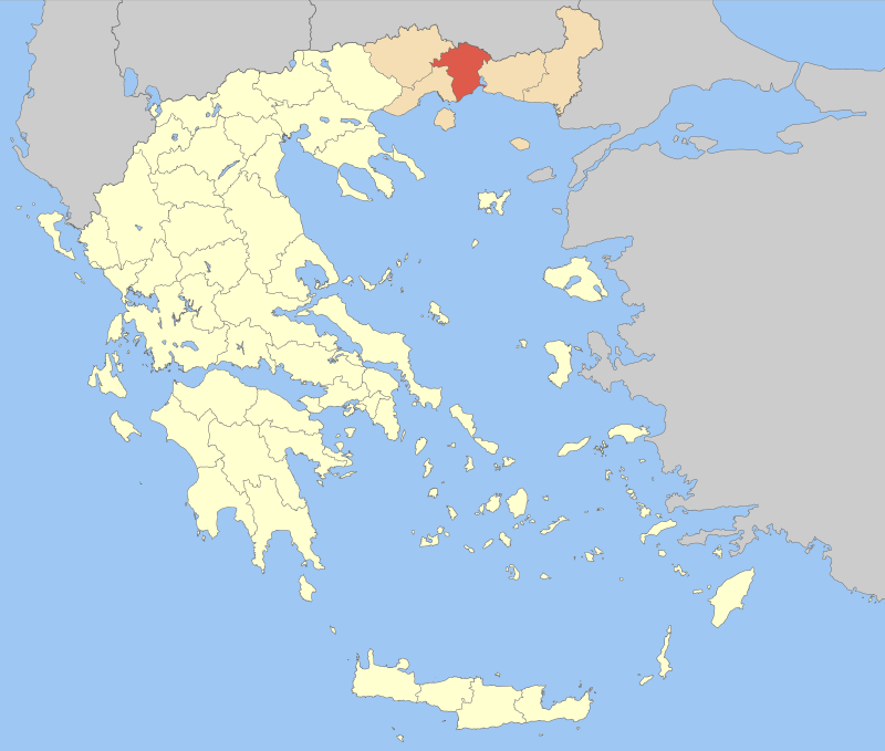 Locator map of Xanthi prefecture (Νομός Ξάνθης) in Greece